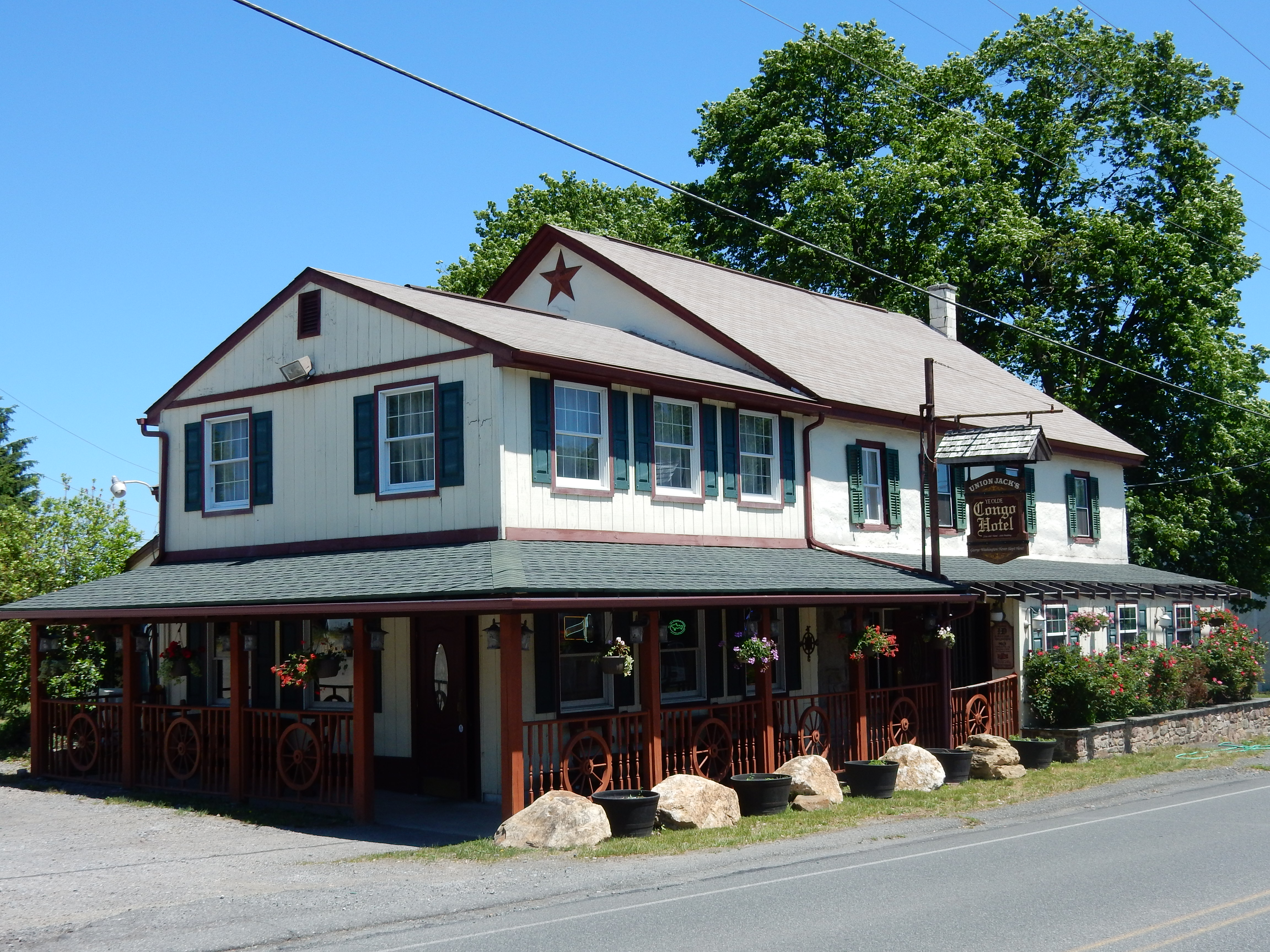 Union Jack's Olde Congo Hotel, Congo, Pennsylvania. 373 Hoffmansville Rd, Barto, PA.